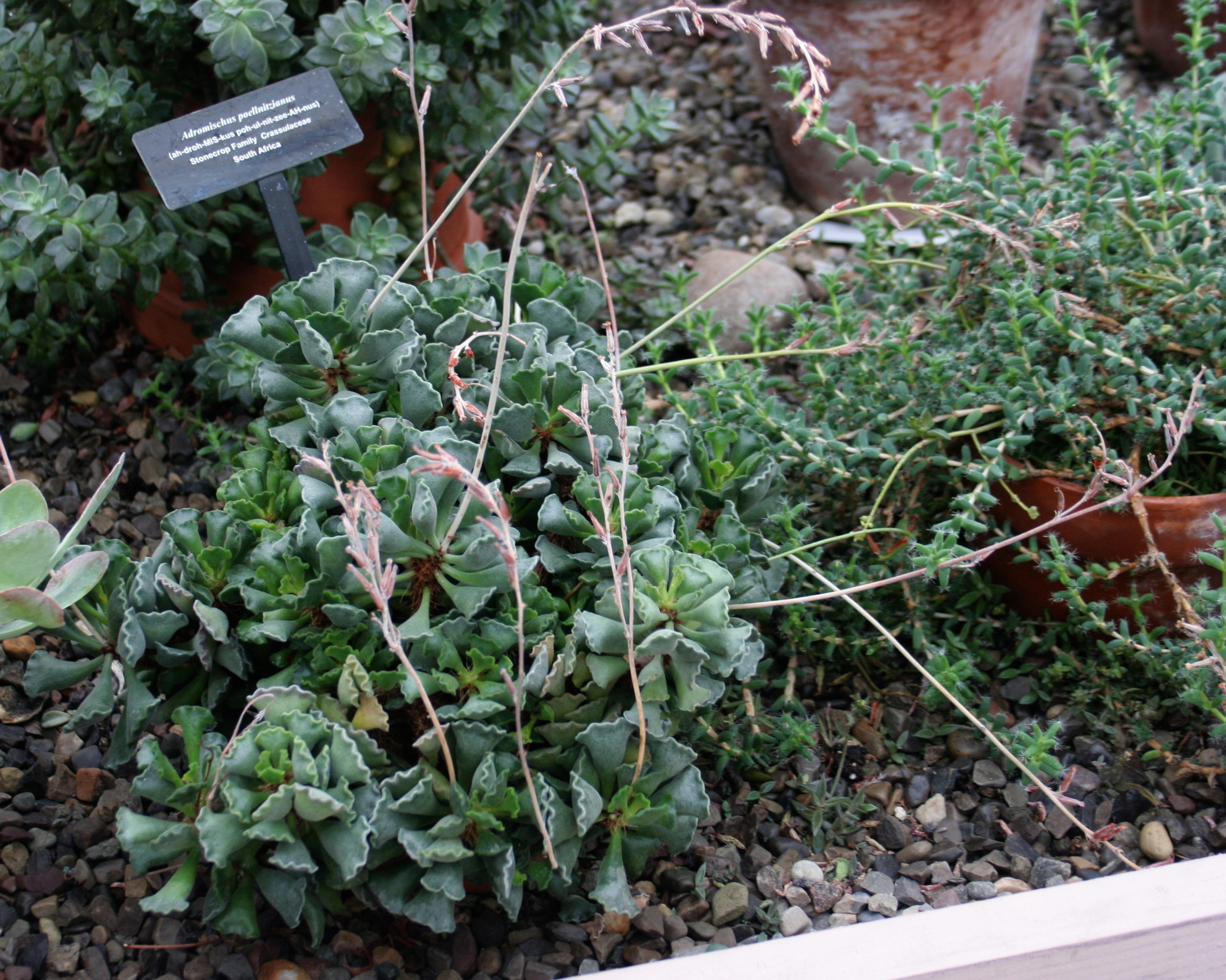 Adromischus cristatus (syn. Adromischus poellnitzianus) at the Buffalo and Erie County Botanical Gardens.